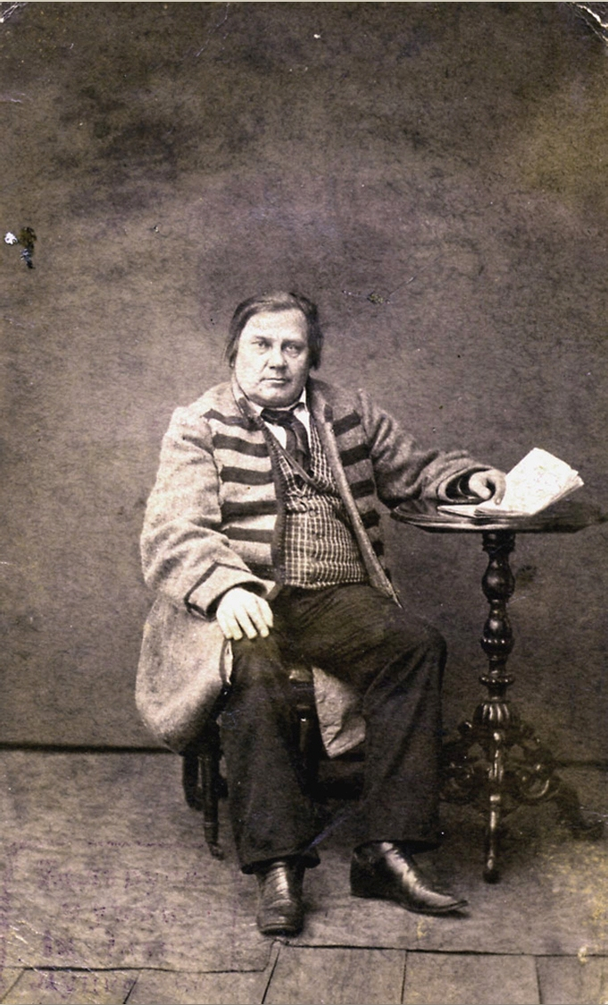 Wincenty Dunin-Marcinkiewicz (1808-1884) - Belarusian and Polish writer, poet, dramatist and social activist and is considered as one of the founders of the modern Belarusian literary tradition. Беларуская (тарашкевіца): Вінцэнт Дунін-Марцінкевіч (1808-1884) - беларускі драматург, паэт.